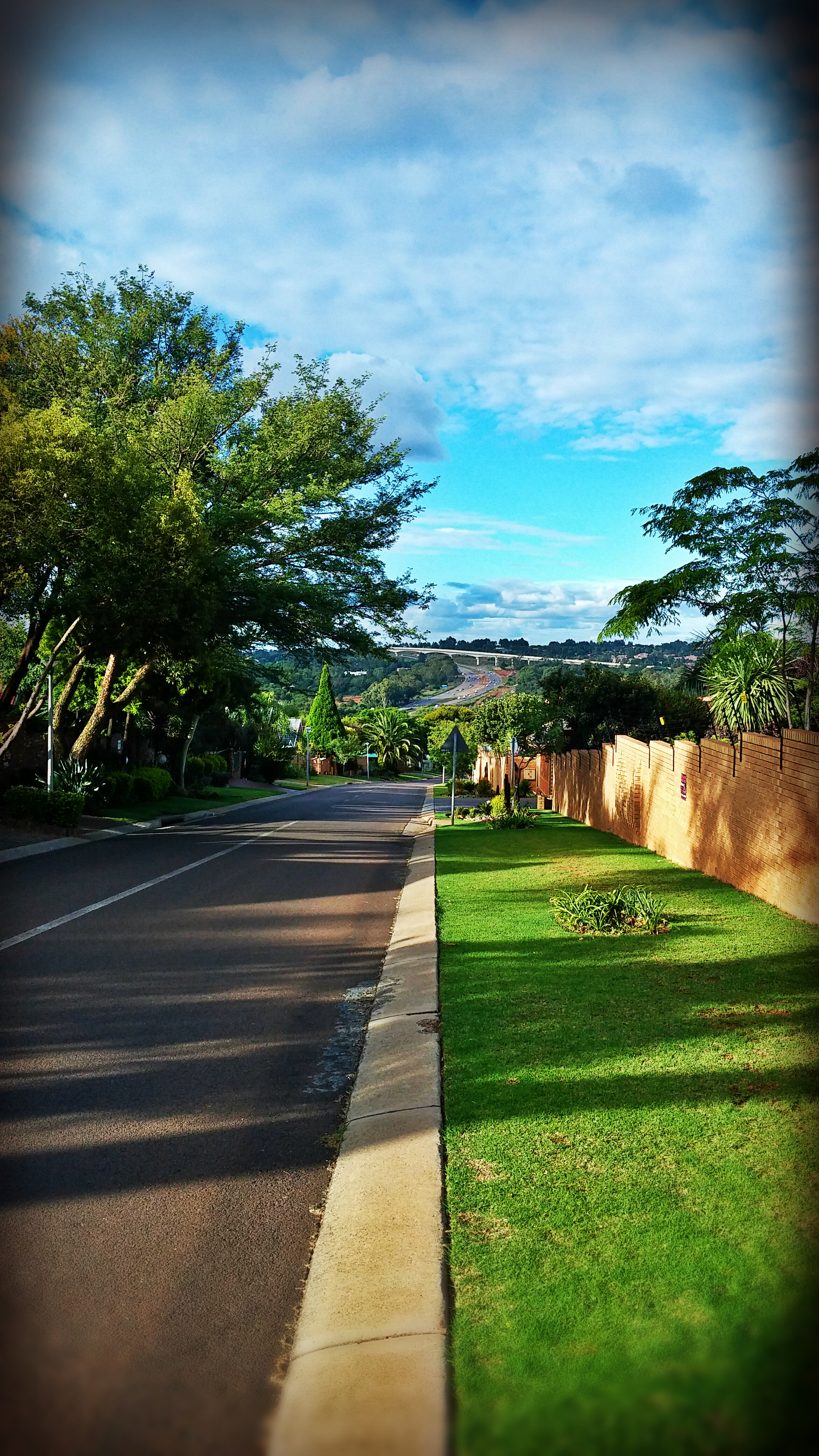 This is a typical street in the local suburb (neighbourhood) of Zwartkop, Centurion, South Africa